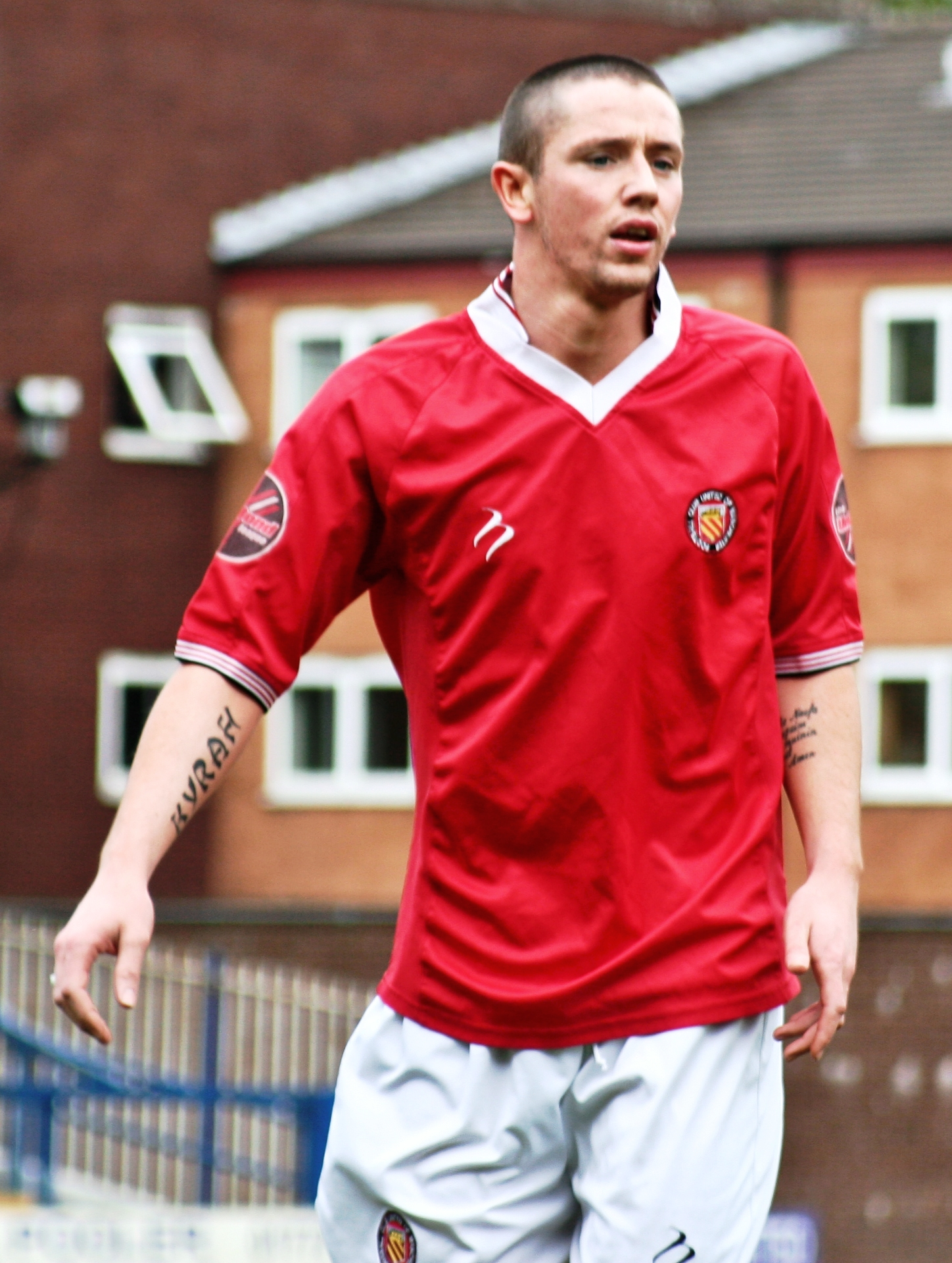 Rory Patterson during the FC United vs Skelmersdale United playoff final in 2008. FC United won the game 4-1.